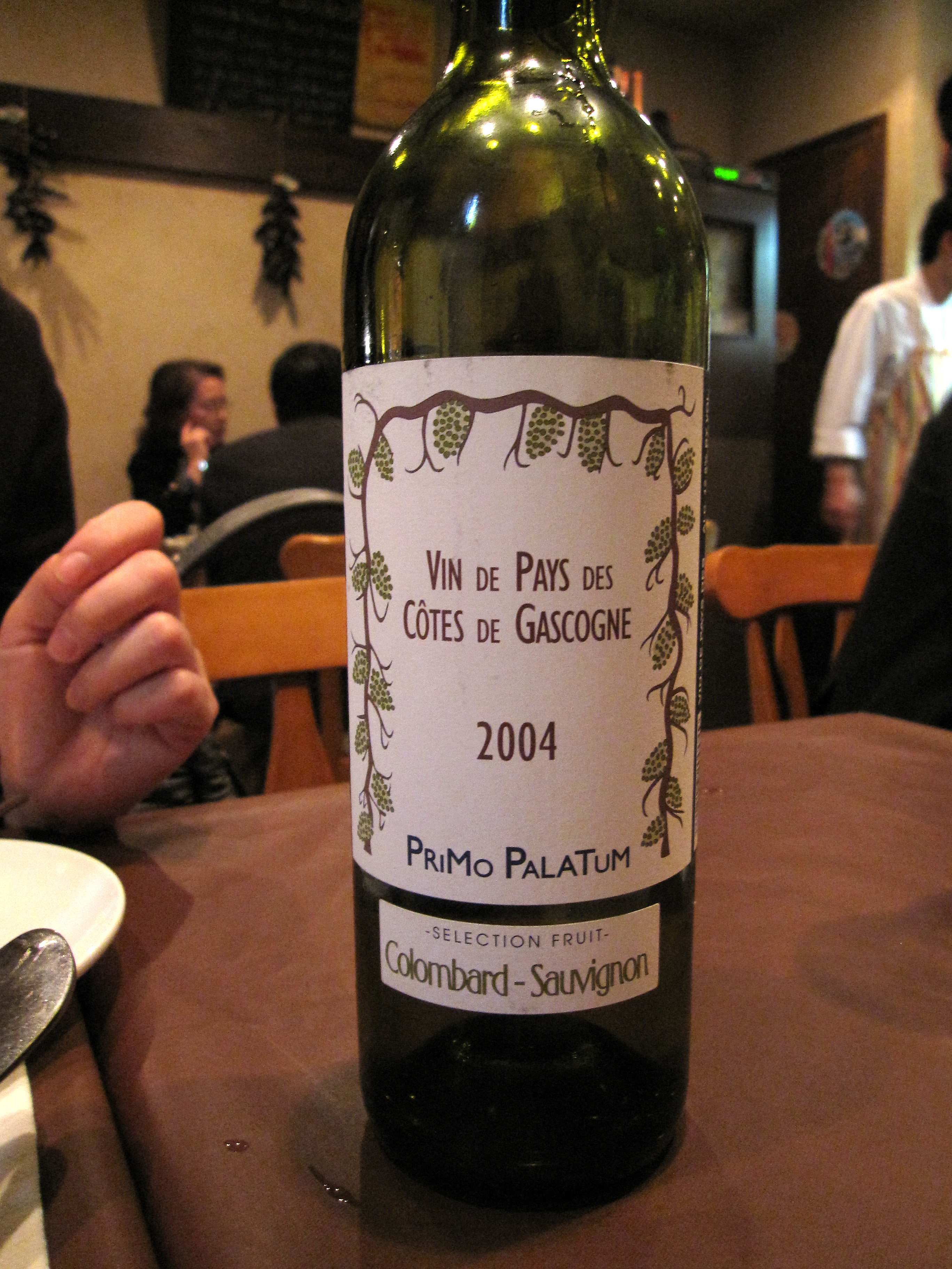 Côtes de Gascogne 2004 primo palatum